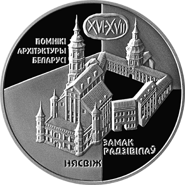 "The Radziwills' Castle. Nesvizh" Niasvizh". Silver commemorative coins, denomination: 20 rubles